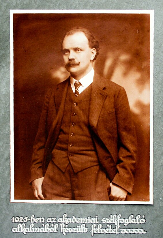 József Gelei at Hungarian Academy of Sciences, 1925